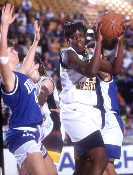 19 MAR 1995: GEORGE WASHINGTON UNIVERSITY SOPHOMORE FORWARD TAJAMA ABRAHAM #40 PULLS DOWN A REBOUND AS THE COLONIAL WOMEN DEFEATED DRAKE IN OVERTIME IN THE SECOND ROUND OF THE WOMENS NCAA TOUNAMENT.THE ATLANTIC 10 CHAMPION TEAM WILL MEET COLORADO IN THE